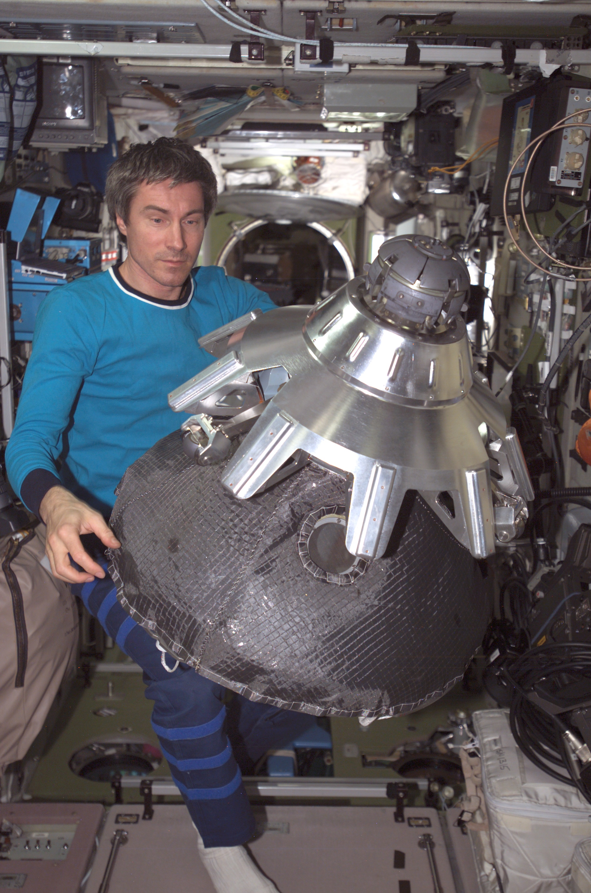 Cosmonaut Sergei K. Krikalev, Expedition 11 commander representing Russia's Federal Space Agency, holds the dismantled probe-and-cone docking mechanism from the Progress 18 spacecraft in the Zvezda Service Module of the International Space Station (ISS). The Progress docked to the aft port of the Service Module at 7:42 p.m. (CDT) as the two spacecraft flew approximately 225 statute miles, above a point near Beijing, China.